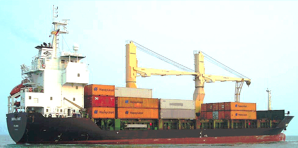 Container ship Motor Vessel Baffin Strait. IMO Number: 9148520 Length: 101 m Beam: 16 m